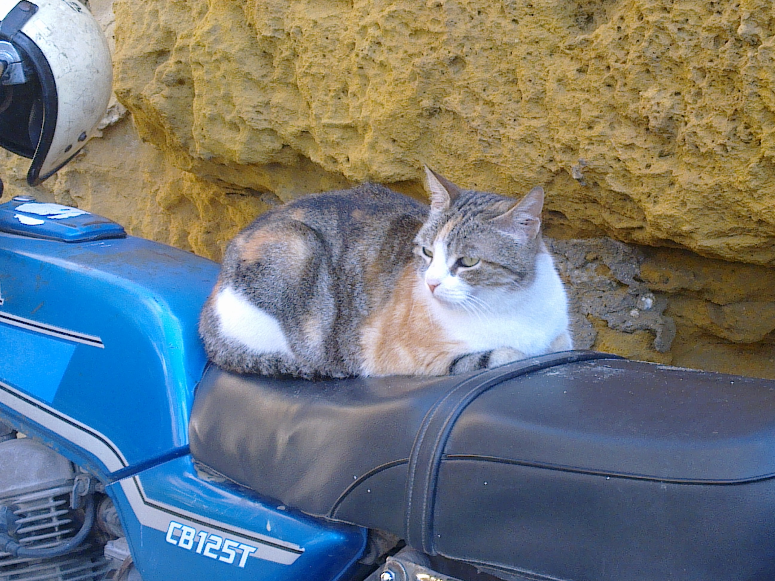 A cat resting on a motor bike on the front porch of The Cittadelle in Victoria, Gozo (Malta)